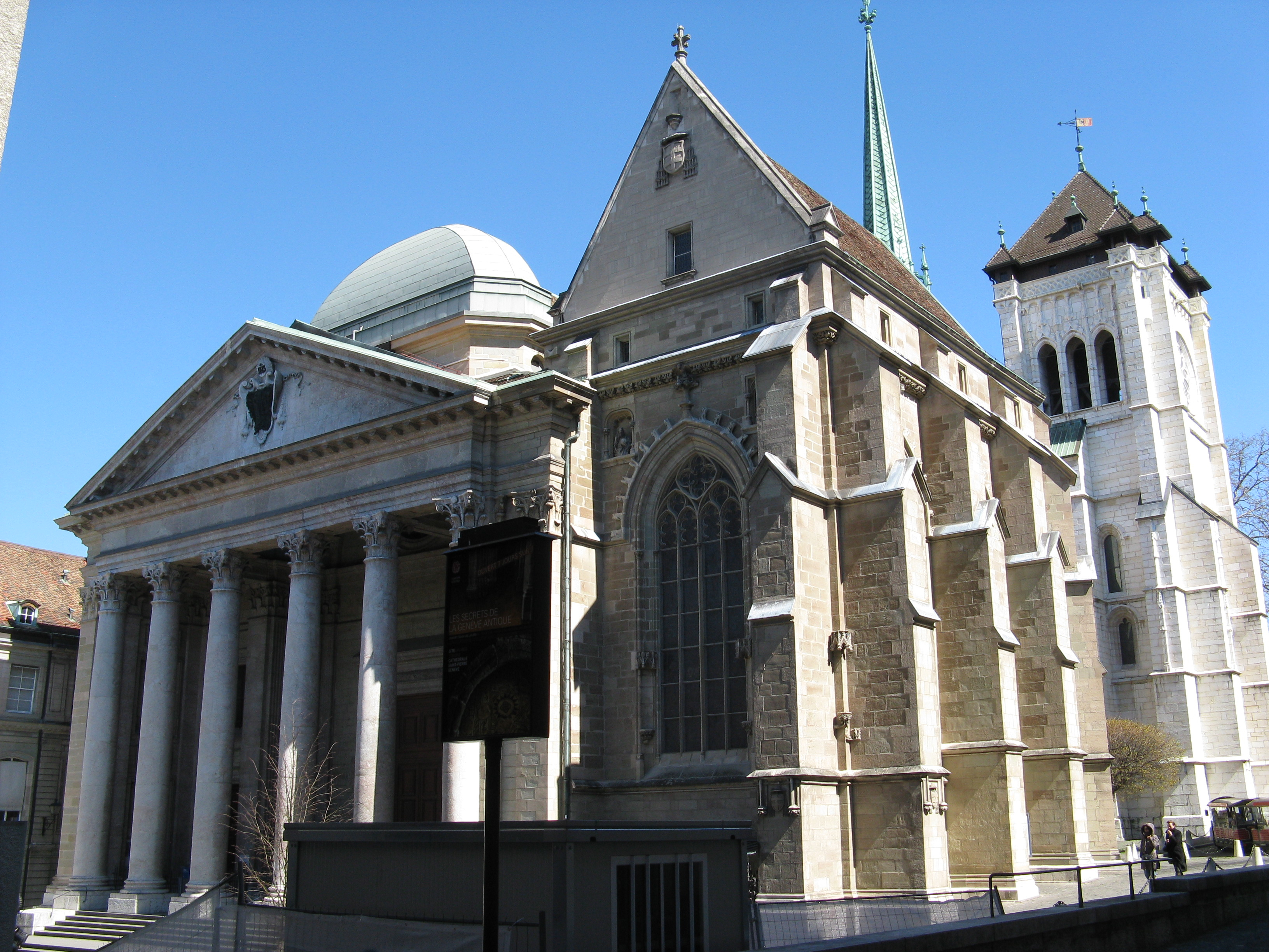 Facade of Saint-Pierre cathedral